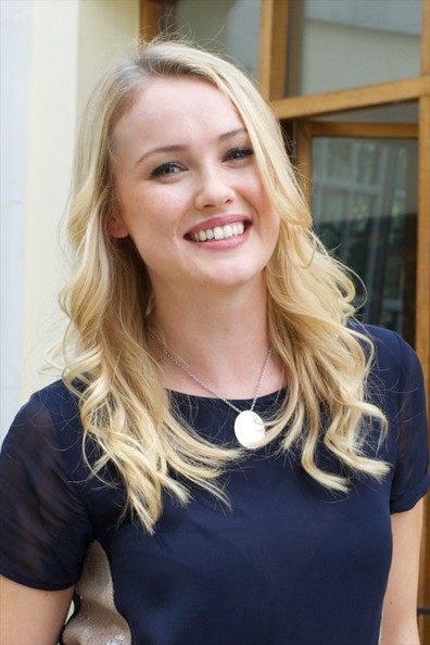 Hannah New